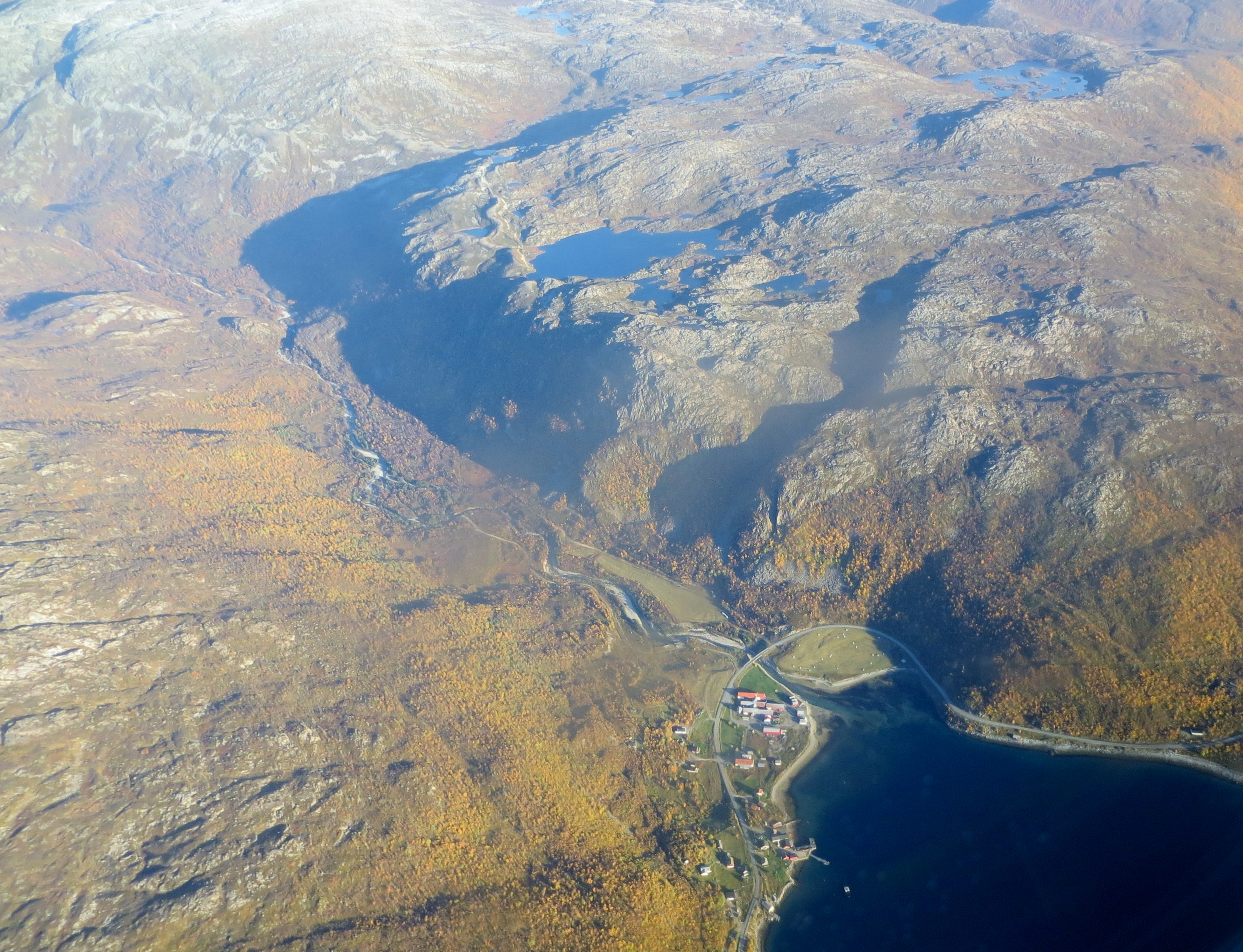 Aerial view the village Indre Kårvik in Tromsø, with the lower parts of the valley Kårvikdalen and the river Kårvikelva. The lake in the center of the picture is Tindvatnet.